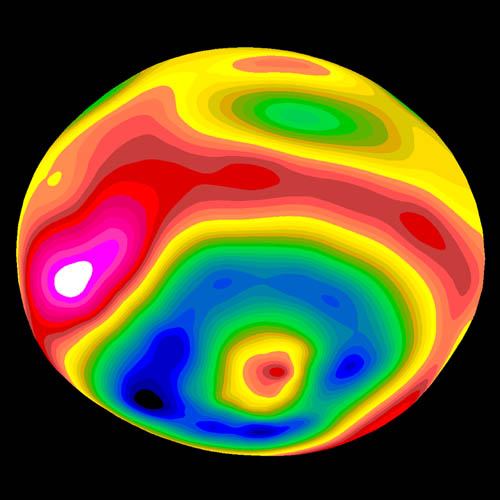 A color-encoded elevation map of Vesta clearly shows the giant 460-kilometer diameter impact basin and "bull's-eye" central peak. The map was constructed from 78 Wide Field Planetary Camera 2 pictures. Surface topography was estimated by noting irregularities along the limb and at the terminator (day/night boundary) where shadows are enhanced by the low Sun angle.